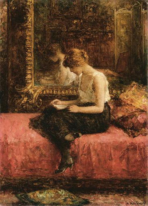 Literary Pursuits of a Young Lady